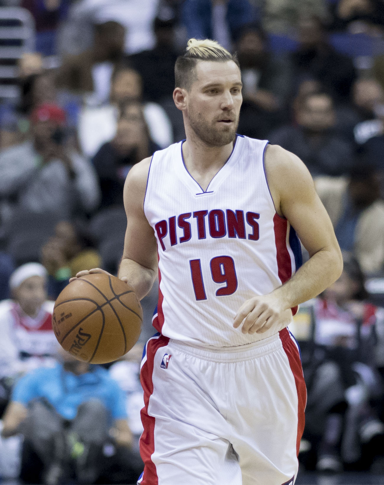 Pistons at Wizards 12/16/16